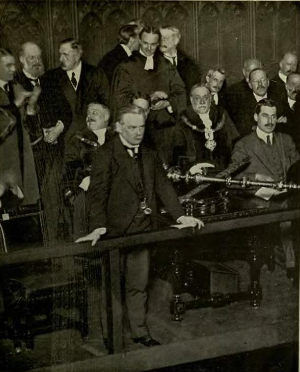 British Prime Minister David Lloyd George requesting a war loan at Guildhall, 1917. El primer ministro británico David Loloyd George en Guildhall, solicitando la creación de un préstamo de guerra, 1917.